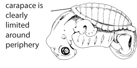 Standard Event System character depiction